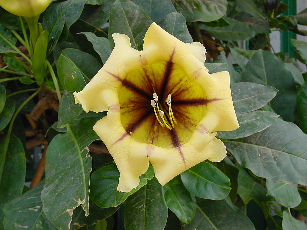 Golden Chalice Vine, Cup of Gold or Hawaiian Lily. Photo taken in Gran Canaria